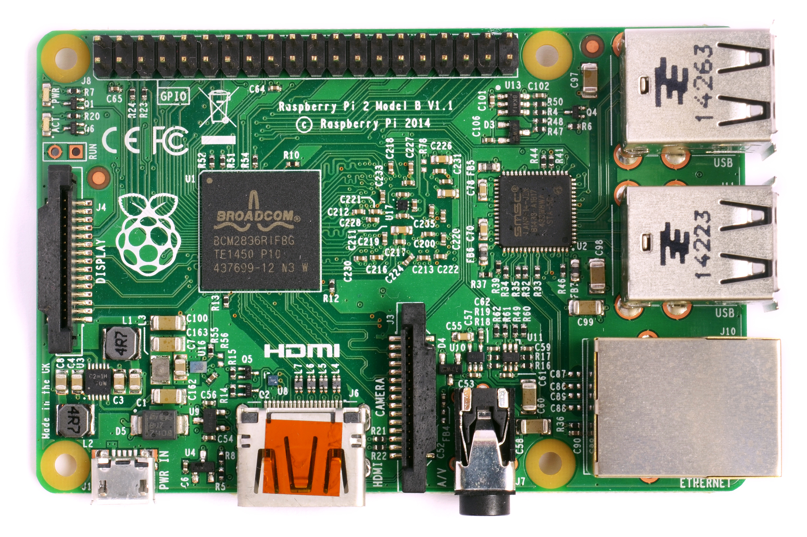 Top half of Raspberry Pi 2 Model B v1.1 viewed directly from above. (Ordered the day after it came out- on Tue 3 Feb 2015- and received a couple of days after that. This one was supplied by CPC/Farnell and "Made in the UK"). Testing shows that this one *is* flash-sensitive- the shiny "U16" semiconductor a centimetre or so to the left of the HDMI badge is apparently to blame.